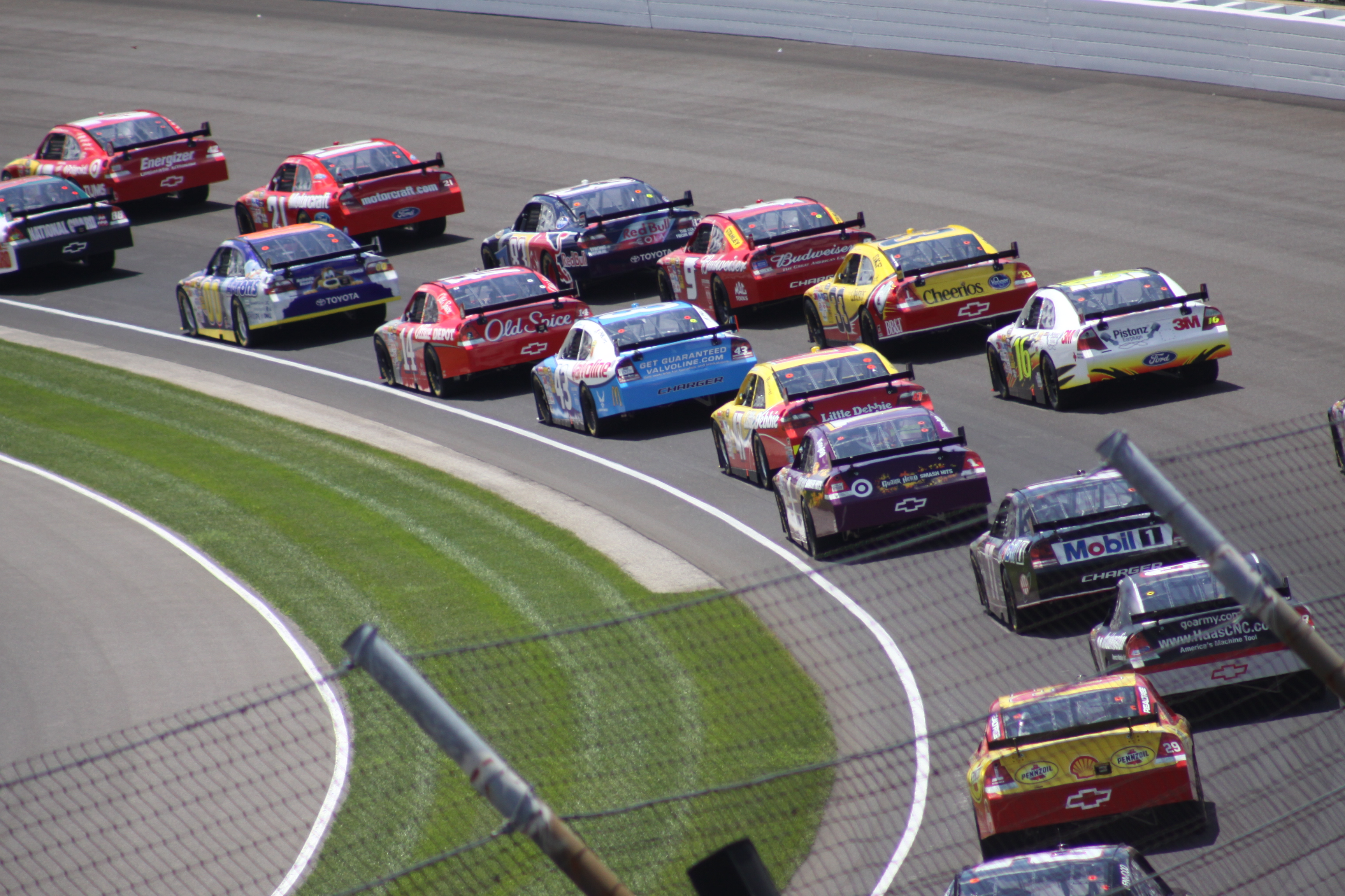 Picture from the "Brickyard 400" in 2009.